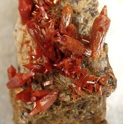 Vanadinite Locality: Western Mine (Western Union Mine; Black & Tan Mine), Stockton Hill, Stockton Camp District (Stockton Hills District), Wallapai District, Cerbat Mts (Cerbat Range), Mohave County, Arizona, USA (Locality at ) Size: 4.9 x 2.6 x 1.8 cm. Vanadinite from this small mine has a quite distinct style. I have seen only a handful on the market, and they came out at least several decades ago. Ex. Harold Urish Collection.